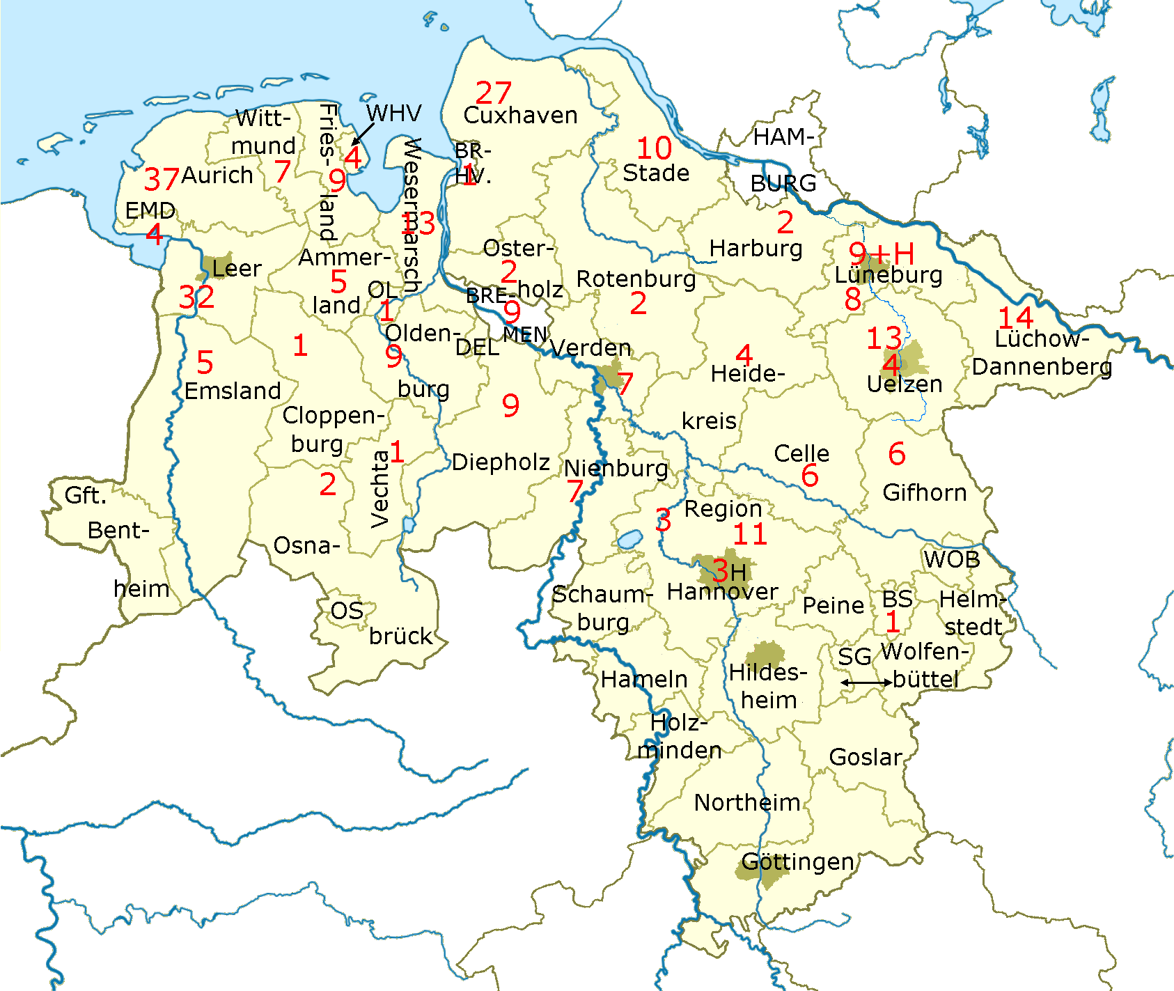 Locator map of the landkreise (districts) of Lower Saxony, Germany; red figures show the number of Brick Gothic buildings in each district and in Bremen, in some cases split for the central place an the rest of the district.